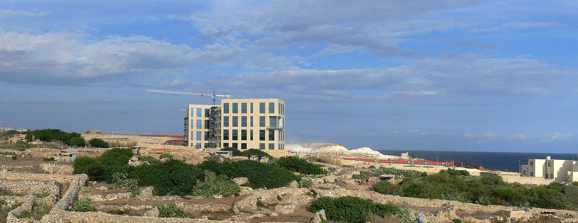 Smart City location in Kalkara (NOT Xgħajra!), Malta